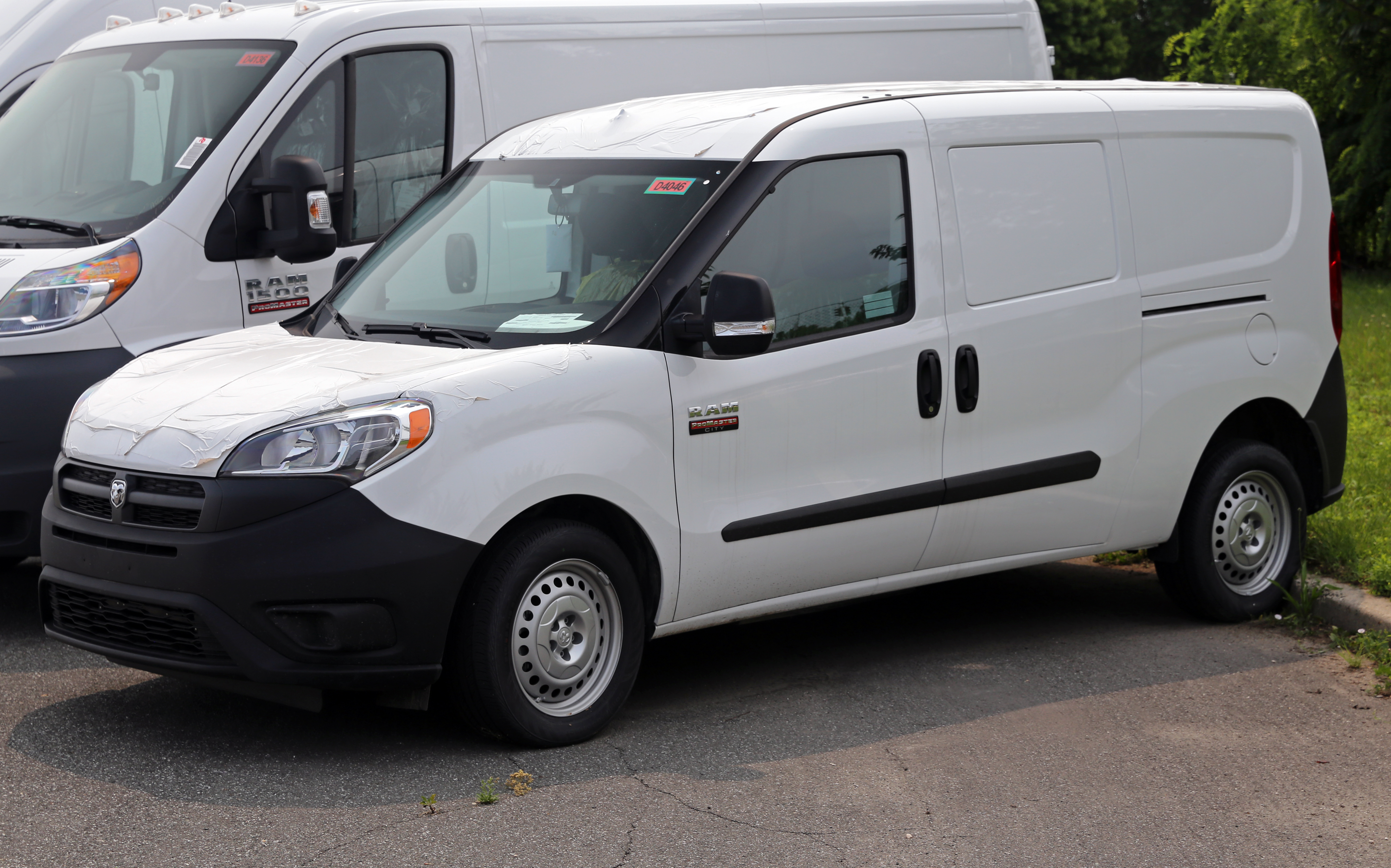 A 2015 Ram ProMaster City Cargo Van in Bright White, interior color B7X9 (poetic), and the 2.4-liter MultiAir inline-four and a nine-speed 948TE automatic transmission. Also has the Tradesman package, with various extras including an extra rear side door. Sadly covered in delivery protective tape.